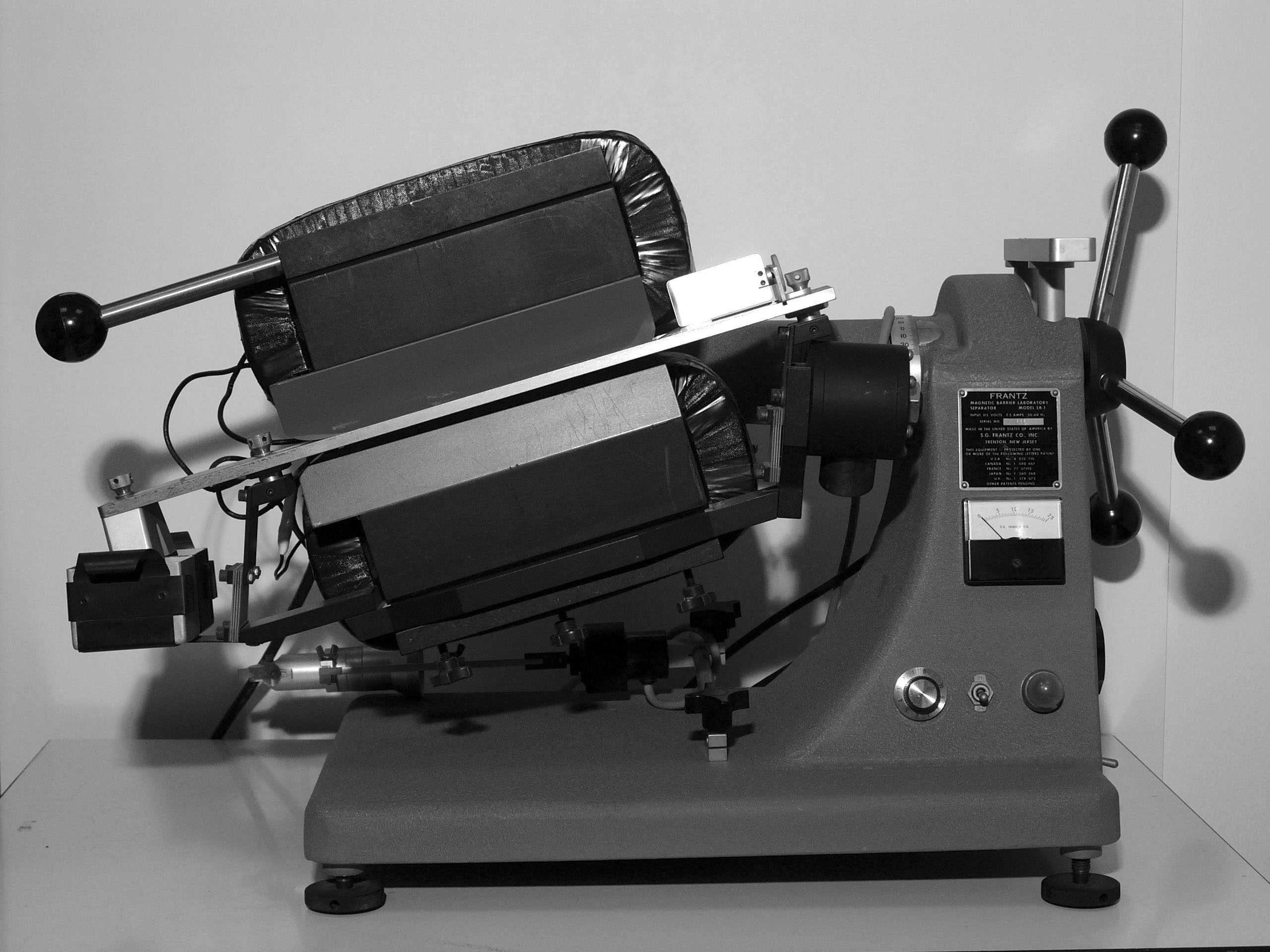 Magnetic Separator - Magnet to separate heavy minerals from sediments and to differentiate minerals by its magnetic properties; used for sediment transport and provenance analysis in geology.